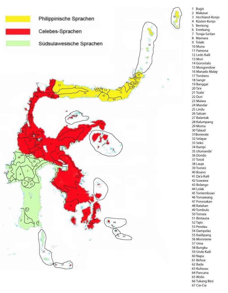 Language groups of Sulawesi